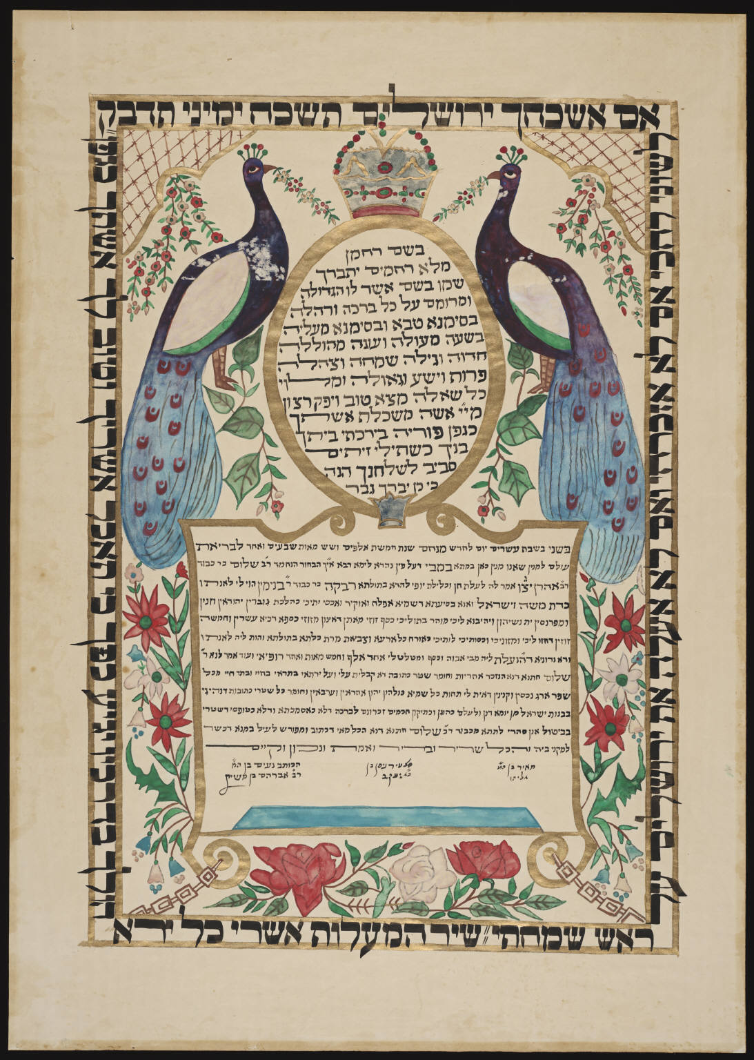 A traditional illustrated ketubah (Jewish marriage contract).